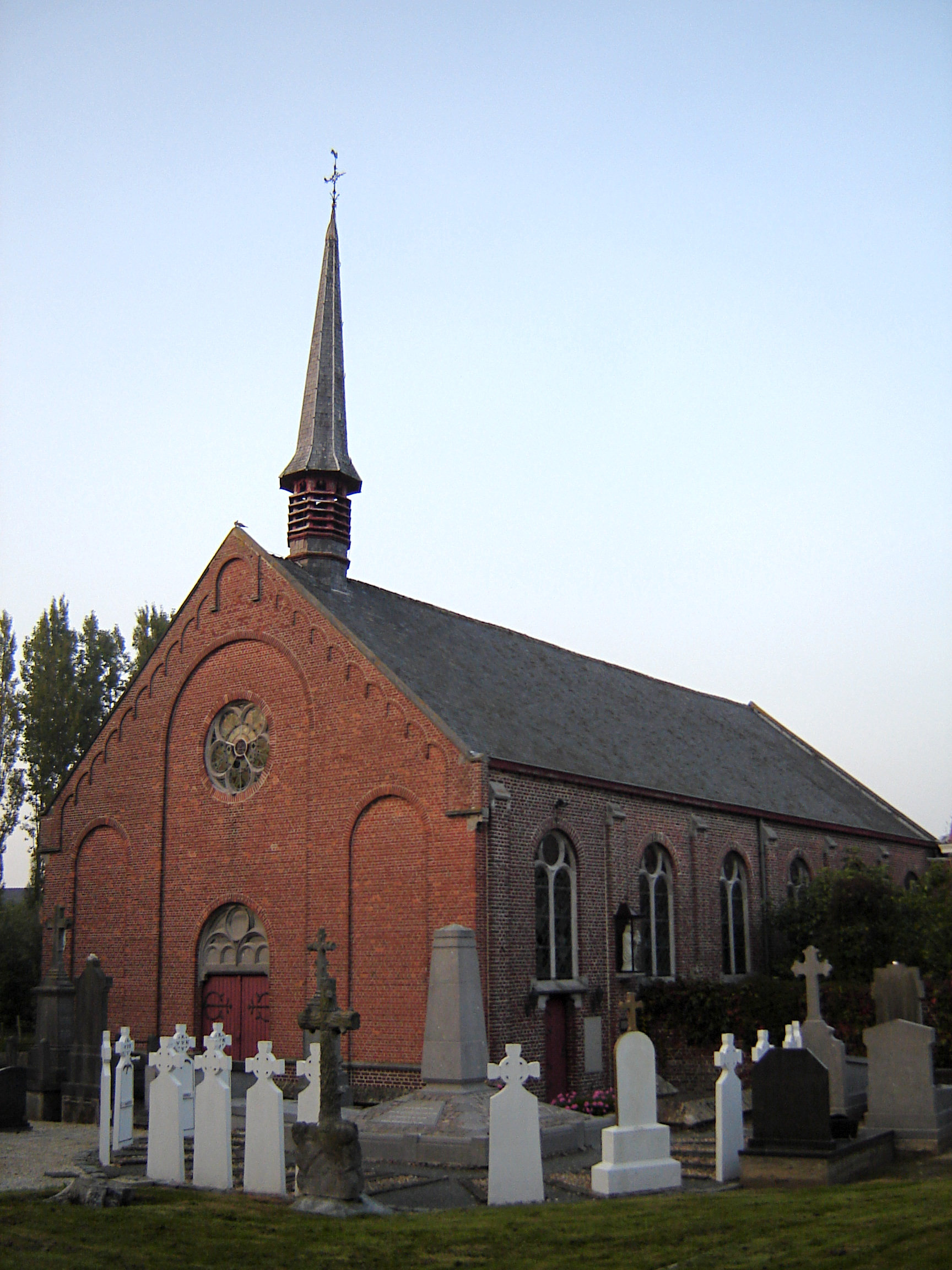 Church of Saint John in Sint-Jan-ter-Biezen. Sint-Jan-ter-Biezen, Poperinge, West Flanders, Belgium